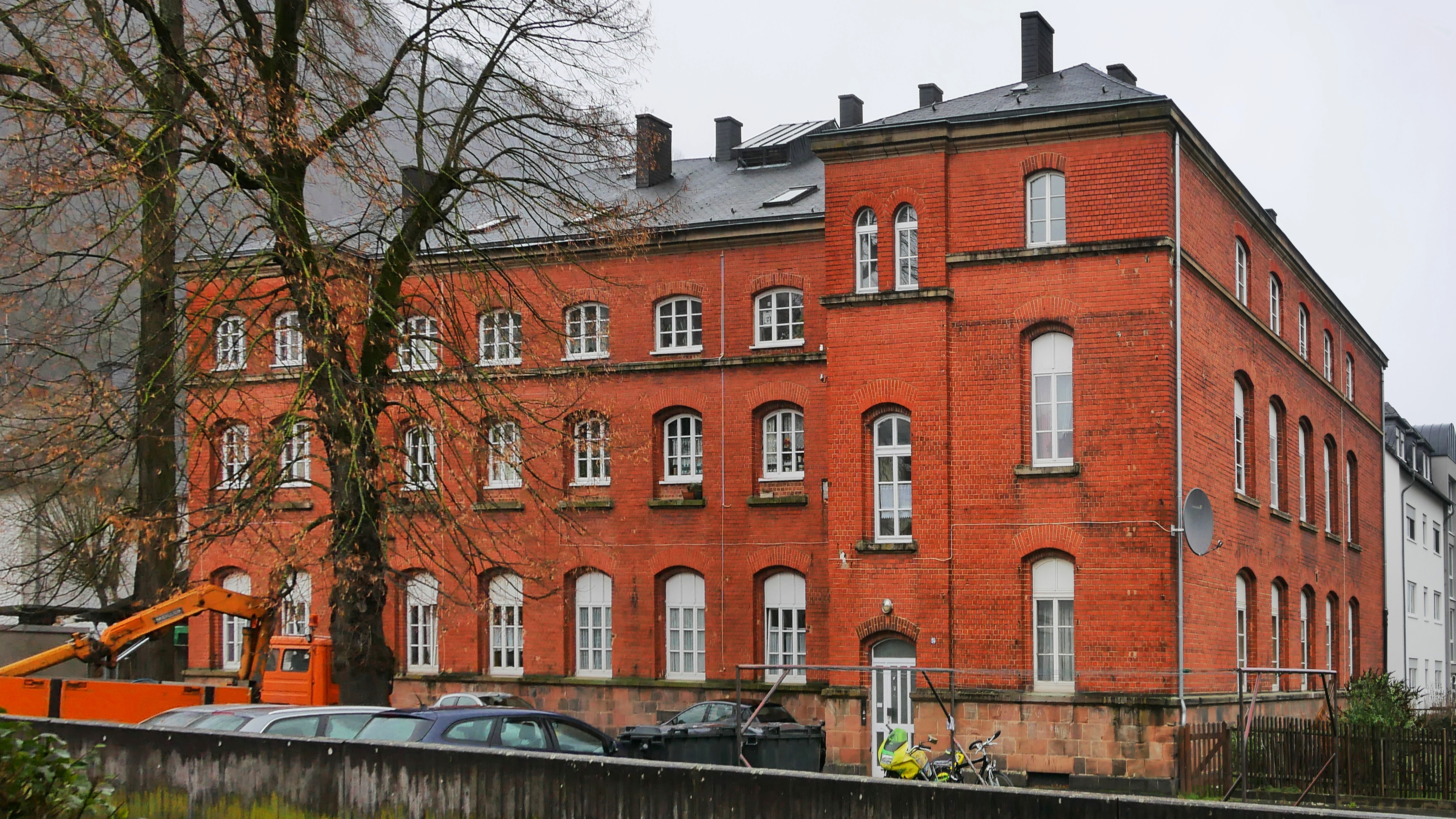 Trier (Germany) - the only still existing building of the former Horn barracks